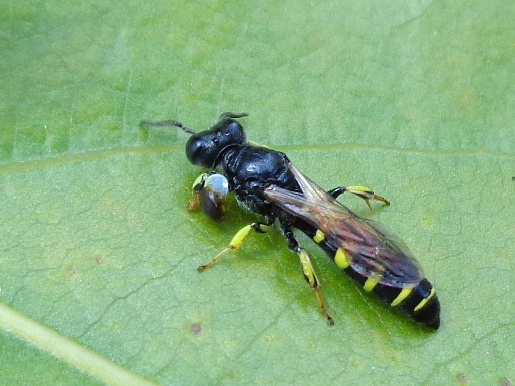 Crabro peltarius. Found in Bērzi village near Bauska city, Latvia